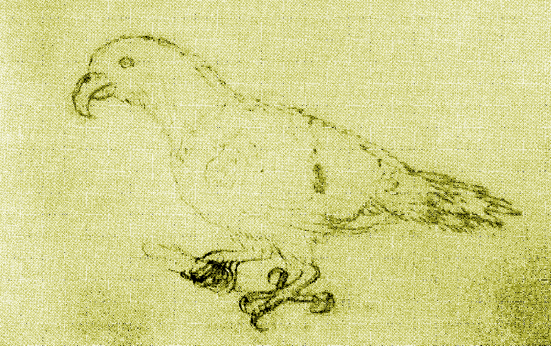 A drawing of an parrot believed to be the extinct Oceanic Eclectic Parrot (Eclectus infectus) from Vava'u, Tonga. An unknown artist of Alessandro Malaspina's Pacific expedition has drawn it in 1793.